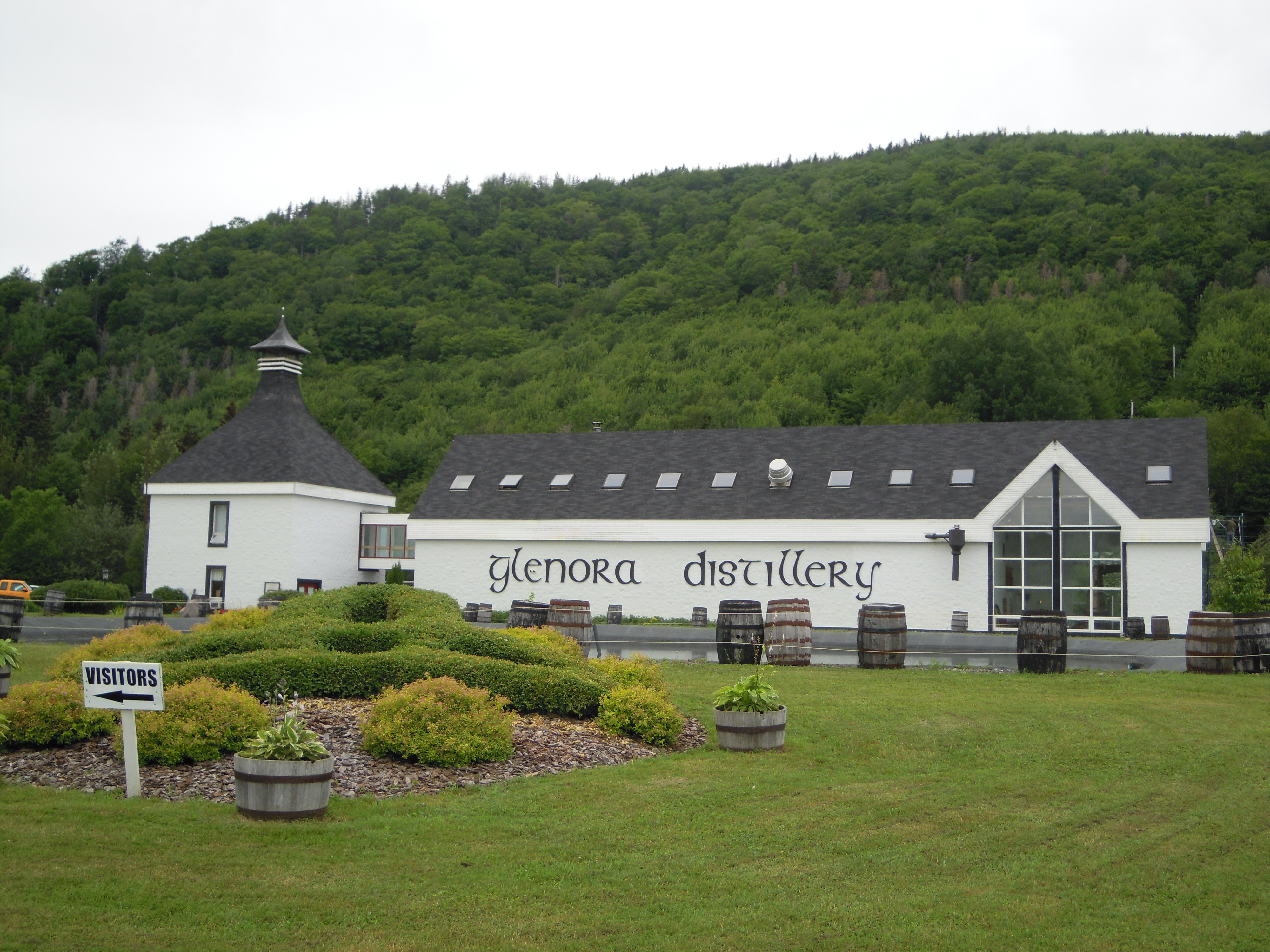 The Glenora Distillery, near Glenville, Cape Breton - the only single malt whisky distillery in North America. Nova Scotia, Canada.